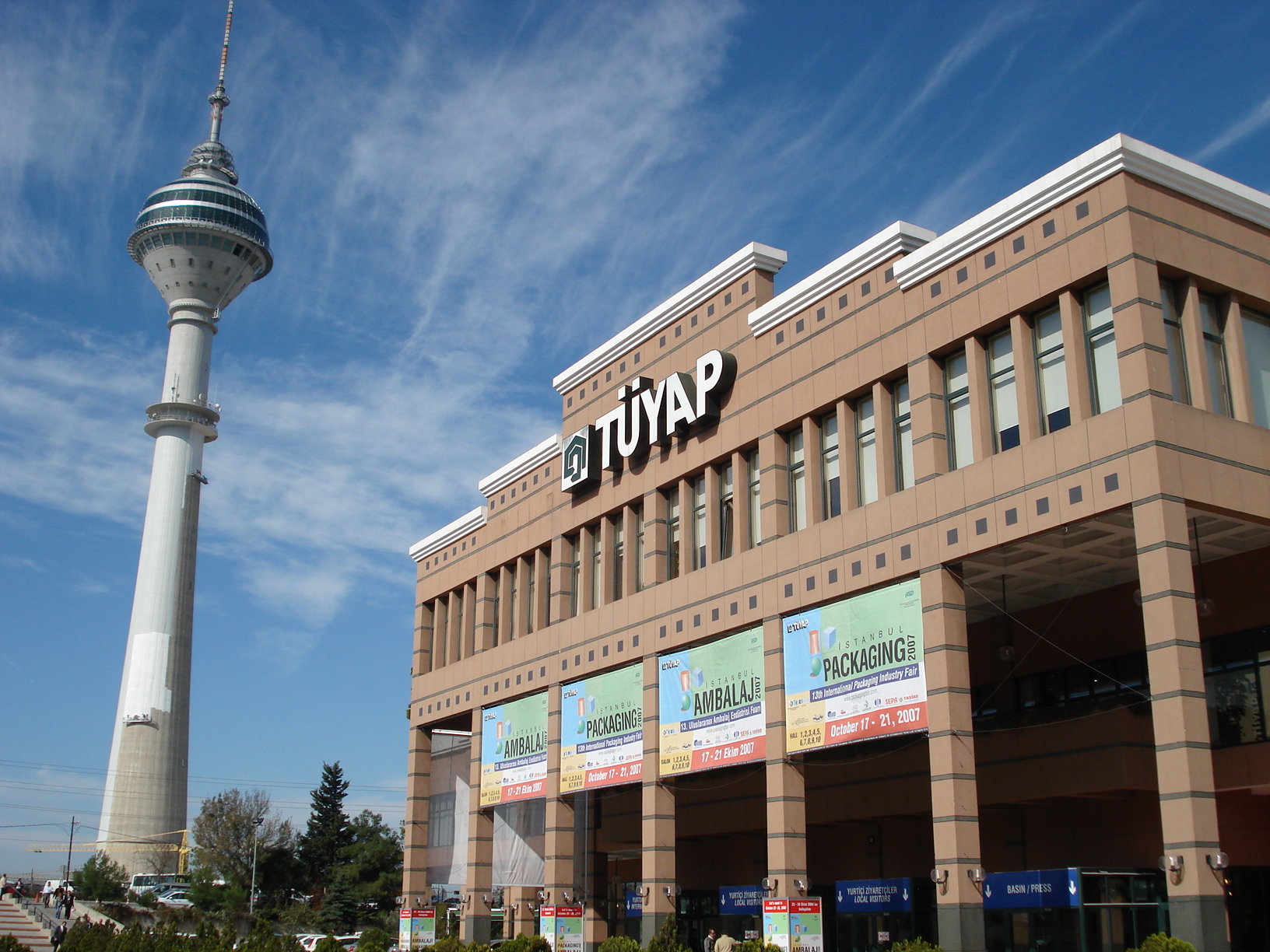 TÜYAP Fair, Convention and Congress Center in Büyükçekmece, İstanbul